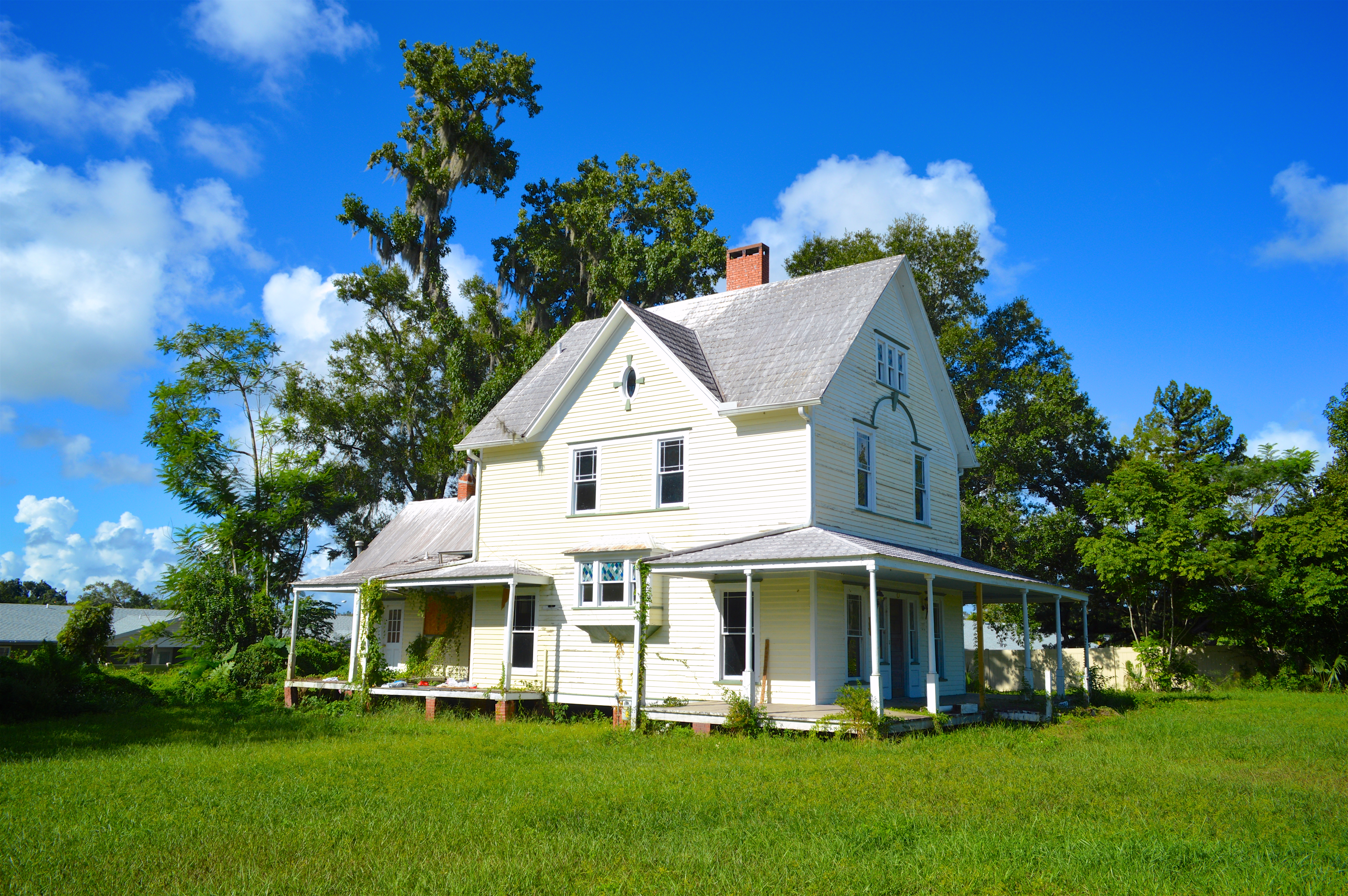 Stockton-Lindquist House as it stands September 2018